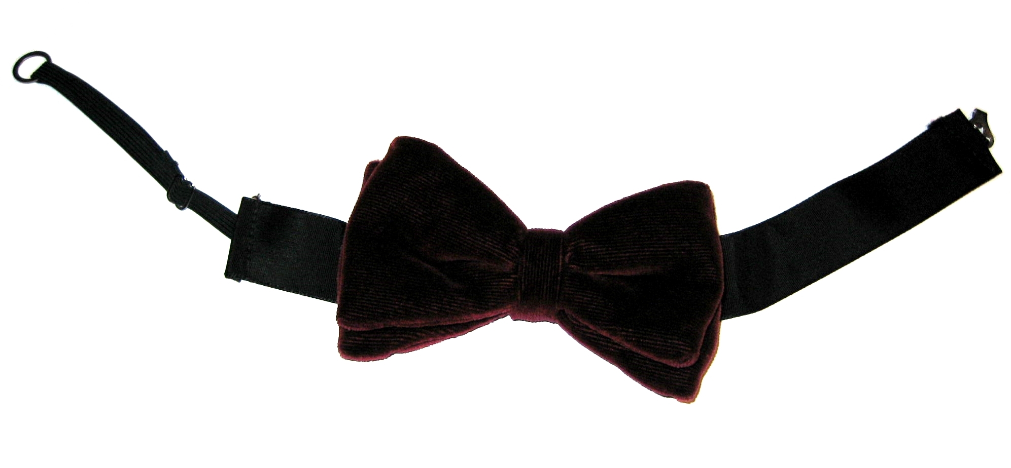 A digital photo of an old BOWTIE (red_velvet_pretied_clipon) to illustrate bowtie page and others.